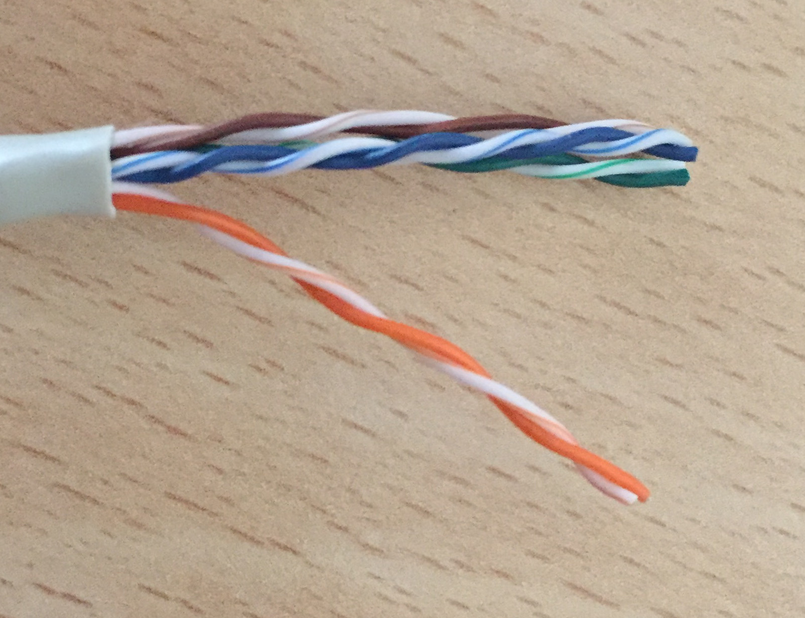 Do it yourself. Make UTP (Unshielded Twisted Pair) and connect RJ45 connector. Step 1: strip.